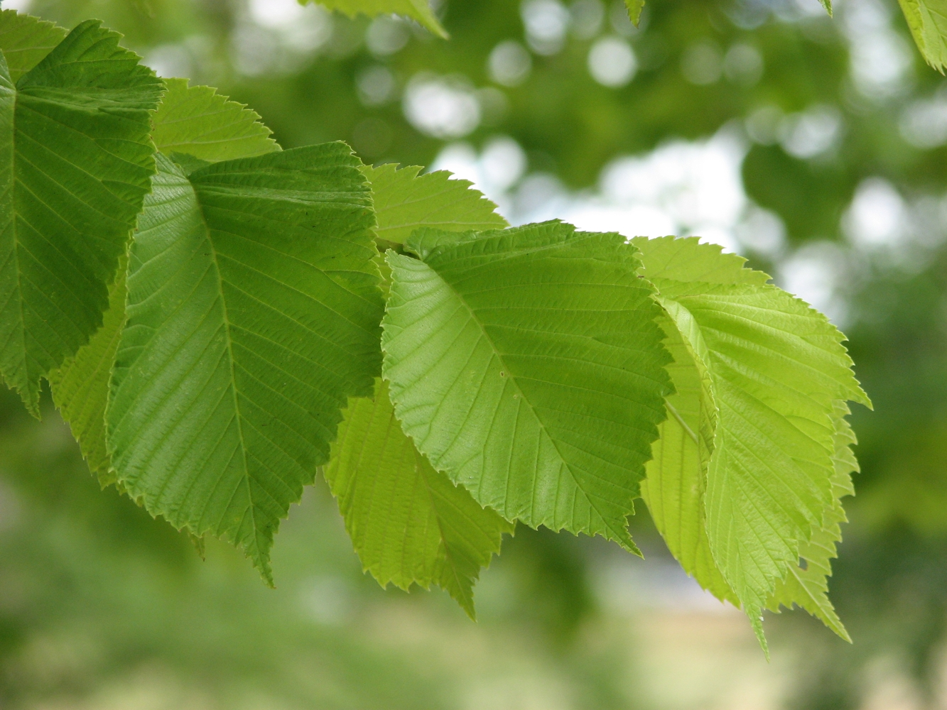 Golden Wych Elm (Ulmus glabra 'Lutescens') in Footscray Park, Melbourne